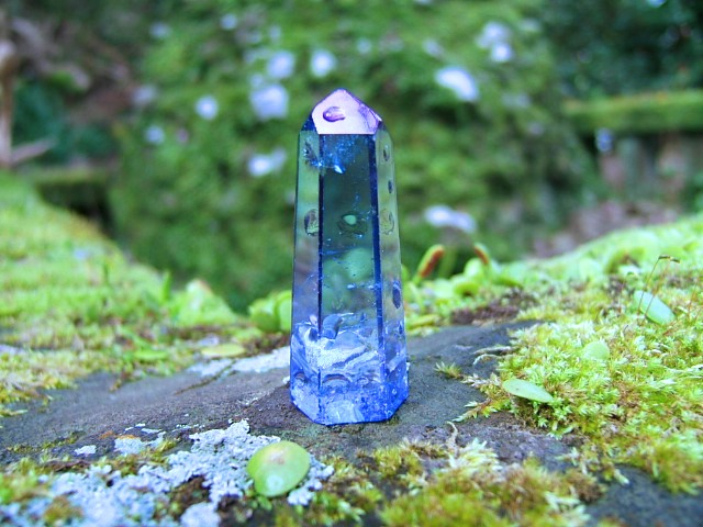 cosmo aura point